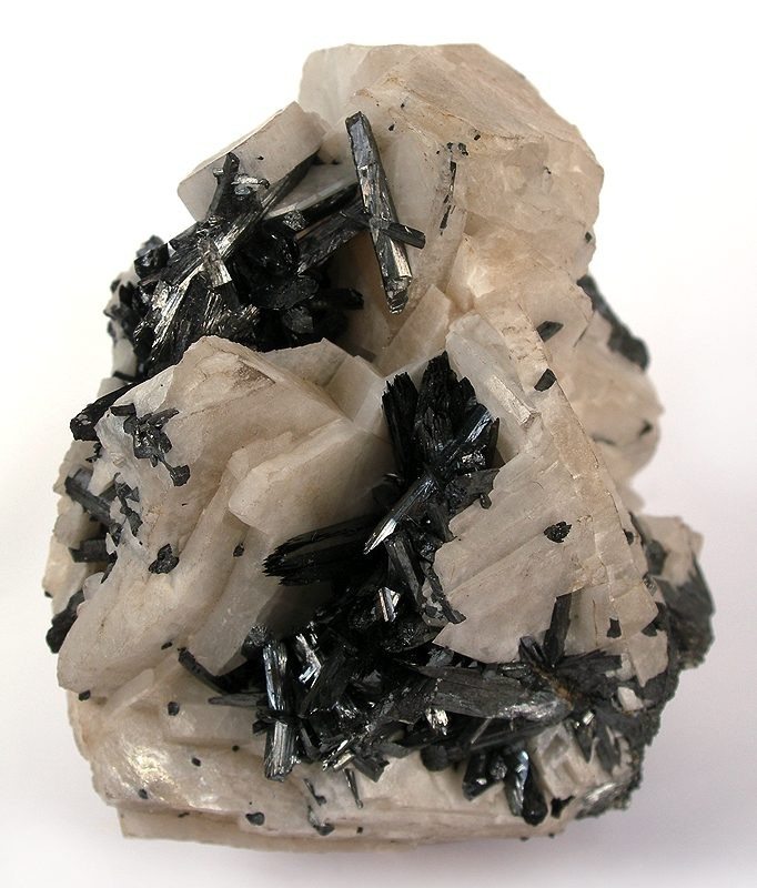 Manganite, Baryte Locality: Ilfeld, Nordhausen, Harz Mts, Thuringia, Germany (Locality at ) Size: 6.8 x 5.5 x 4.3 cm. A superb specimen from the mid-1880s finds at Ilfeld. This specimen has sharp, doubly-terminated, unusually pointy manganite crystals to 1.5 cm in size, and they are unusually perched on contrasting matrix of thick, platy barytes.